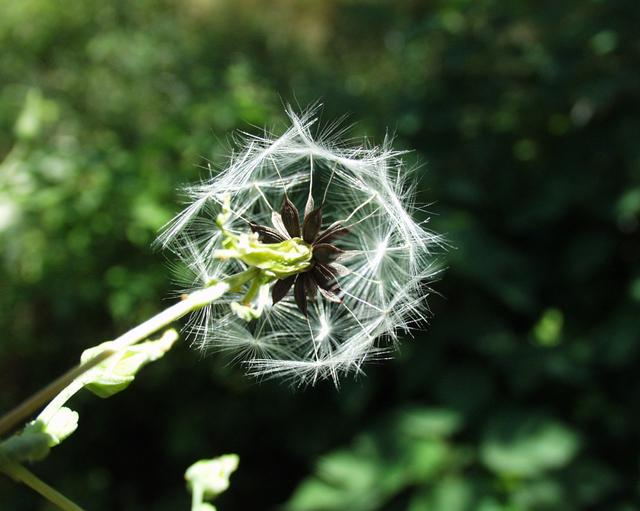 (en) Lactuca virosa, a photography originating of the internet site The accord of the autor, H. Brisse, is here. (fr) Lactuca virosa, une photographie issue du site internet L'accord de l'auteur, H. Brisse, se situe ici.